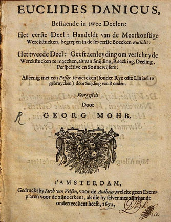 Frontpage of Euclides Danicus (1672) by Georg Mohr (1640-1697)